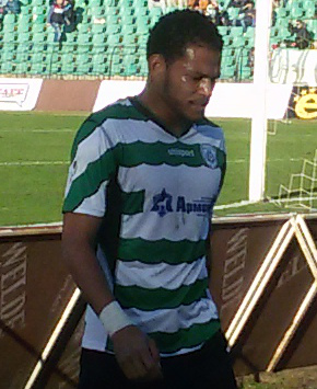 Cape Verdean footballer Stenio